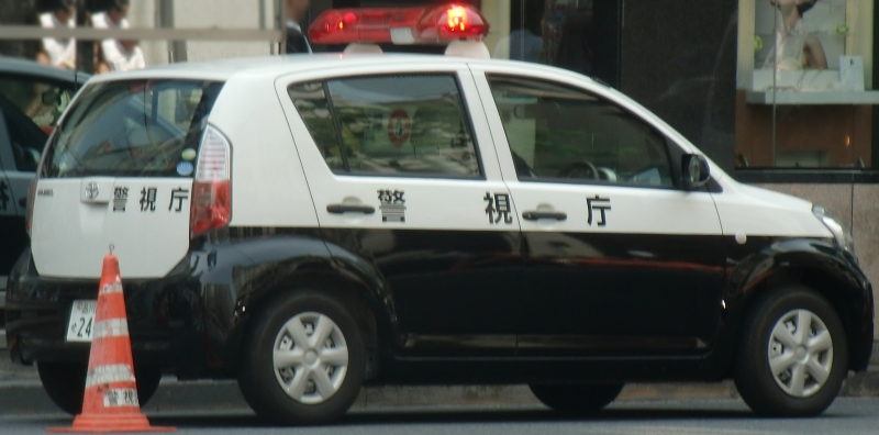 Toyota Passo police car